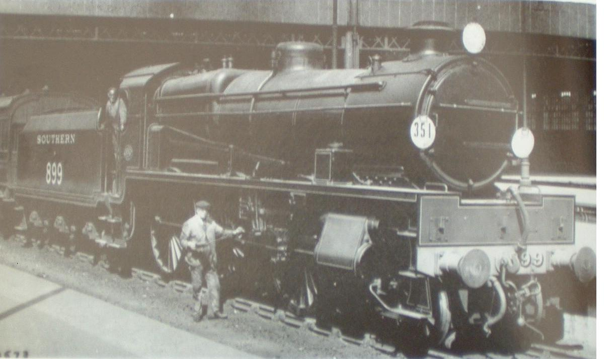 An image of an SR U1 class locomotive from the Locomotive Publishing Company collection, now under the custodianship of the British National Railway Museum, with which the copyright currently rests. The museum is a non-departmental public body sponsored by the Department for Culture. The image was taken c. 1931 at Waterloo. (Source: Dendy Marshall, C. F. and Kidner, Robert: History of the Southern Railway (Hinckley: Ian Allan, 1963). It is believed that: PD-BritishGov applies